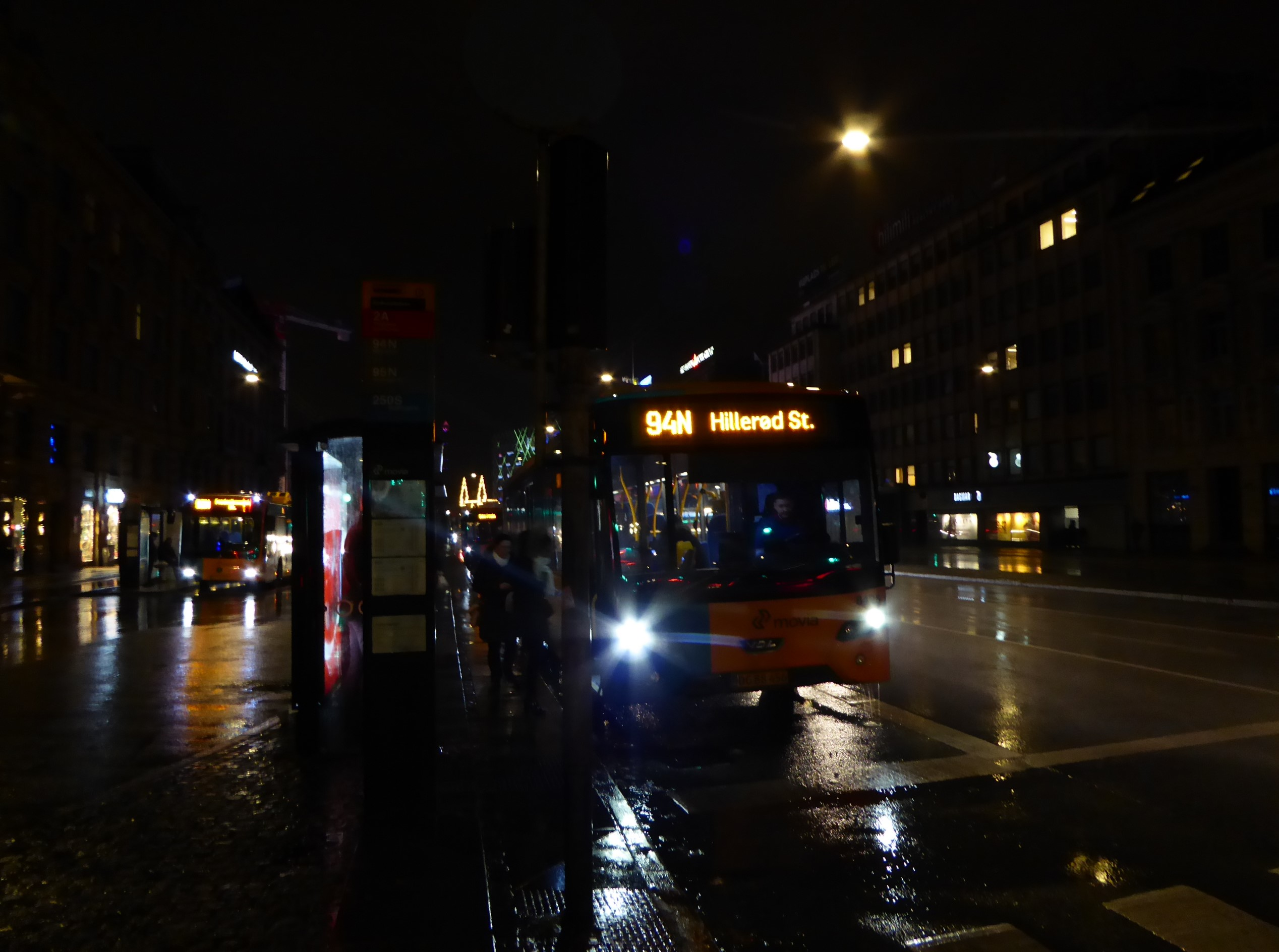 Movia night bus line 94N at Rådhuspladsen in Copenhagen.